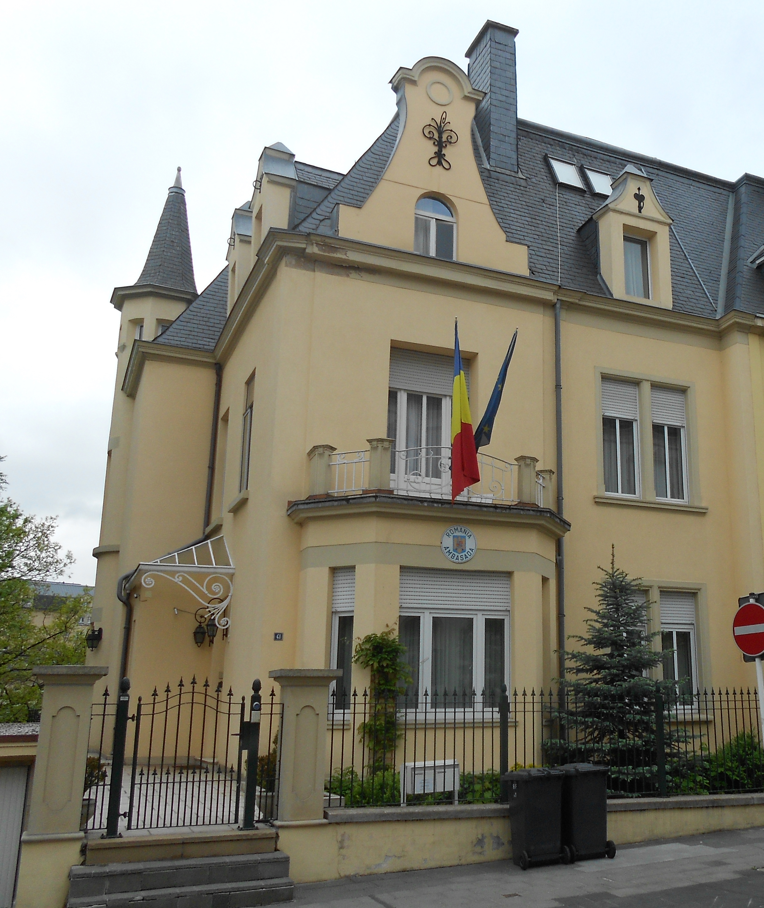 Romanian ambassy, on the Boulevard de la Petrusse in the city of Luxembourg.